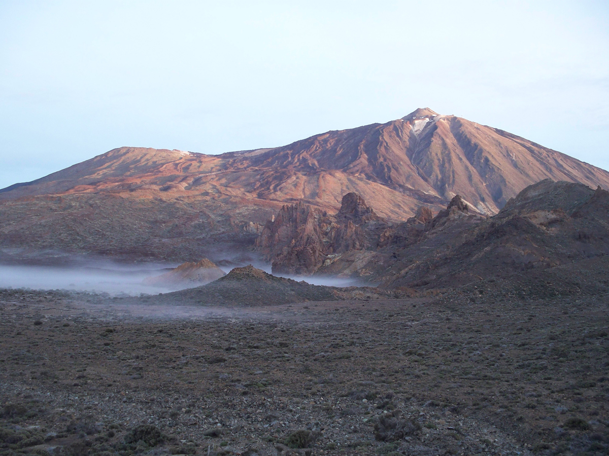 Teide seen from Llano de Ucanca